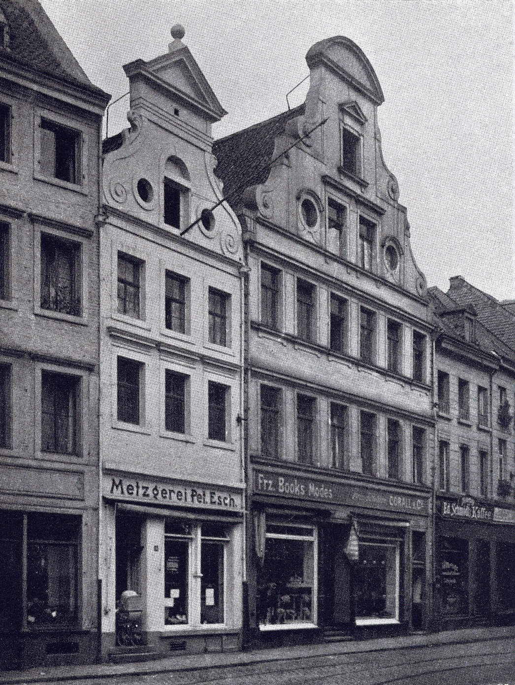 t